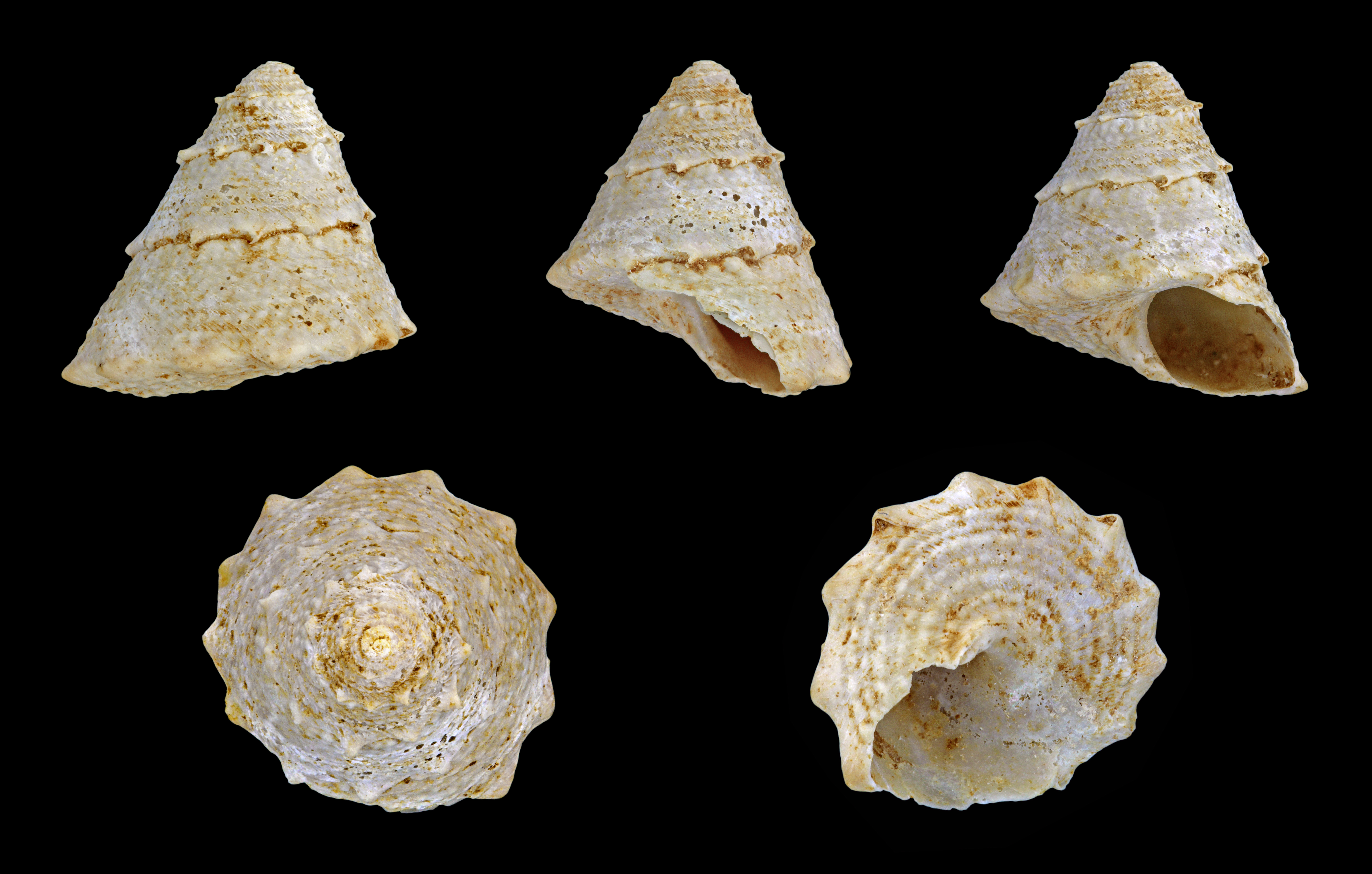 Height 1.1 cm; Chipola Formation, Miocene; Ten Mile Creek, Florida, USA; Shell of own collection, therefore not geocoded. Dorsal, lateral (right side), ventral, back, and front view.